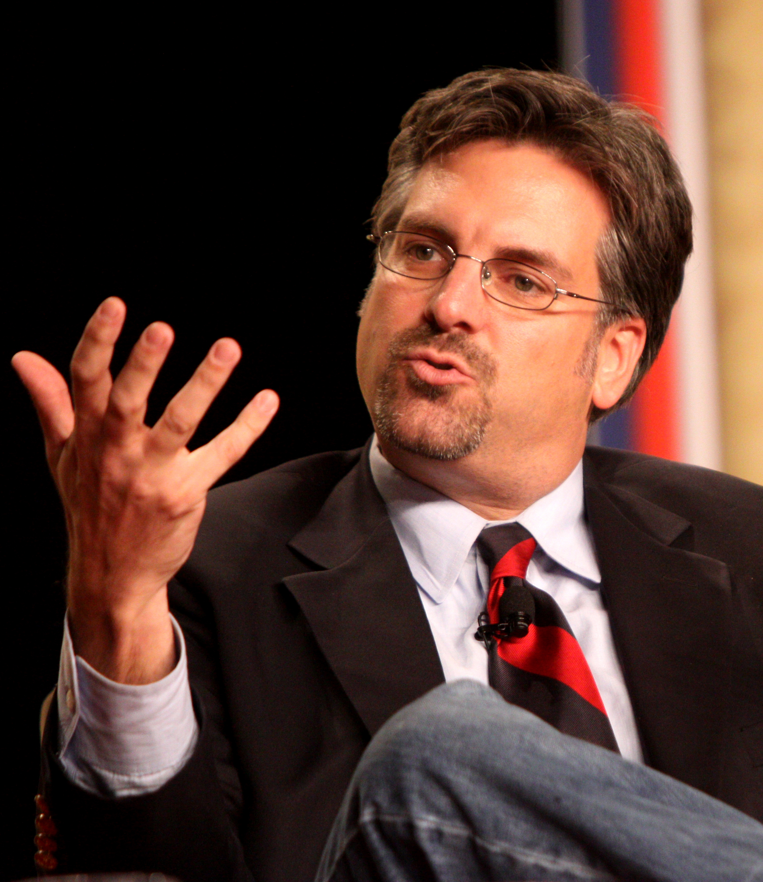 Stephen F. Hayes at a political conference in Orlando, Florida.